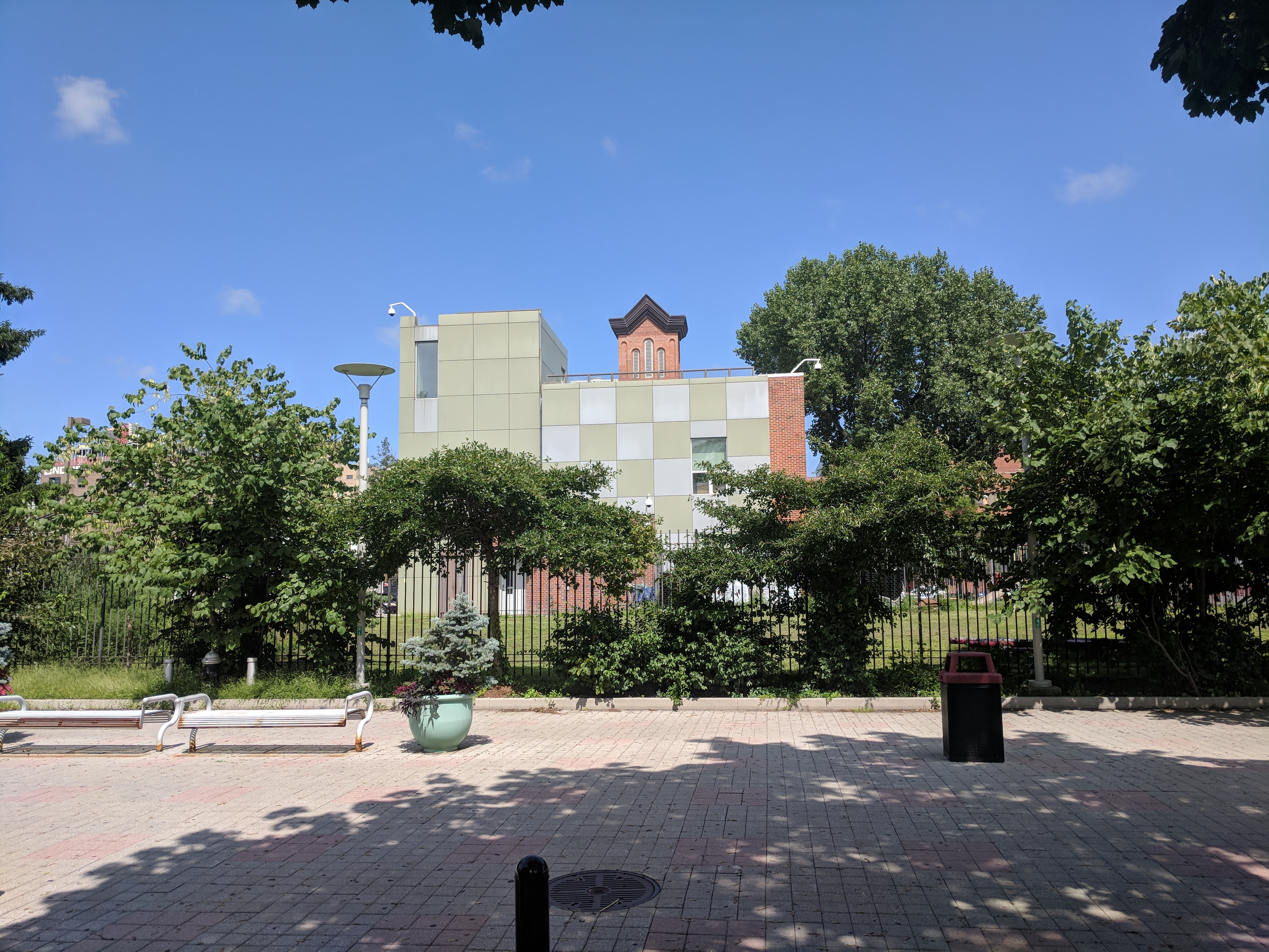 Prospect Cemetery is a historic cemetery located in the Jamaica section of the New York City borough of Queens. It was established in 1668 and known as the "burring plas." It is the oldest cemetery in NYC. Located on the campus of CUNY's York College it was behind St.Monica's Church which has been converted into a campus child care center. Viewed from the doors of the Chapel of the sisters facing east behind St. Monicas.